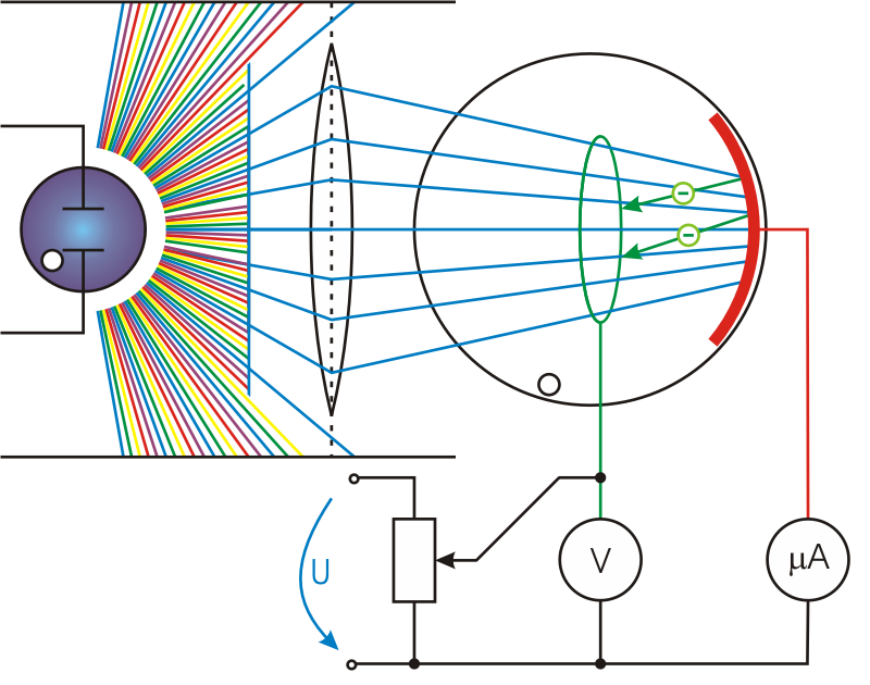 Experiment for the Photoelectric Effect